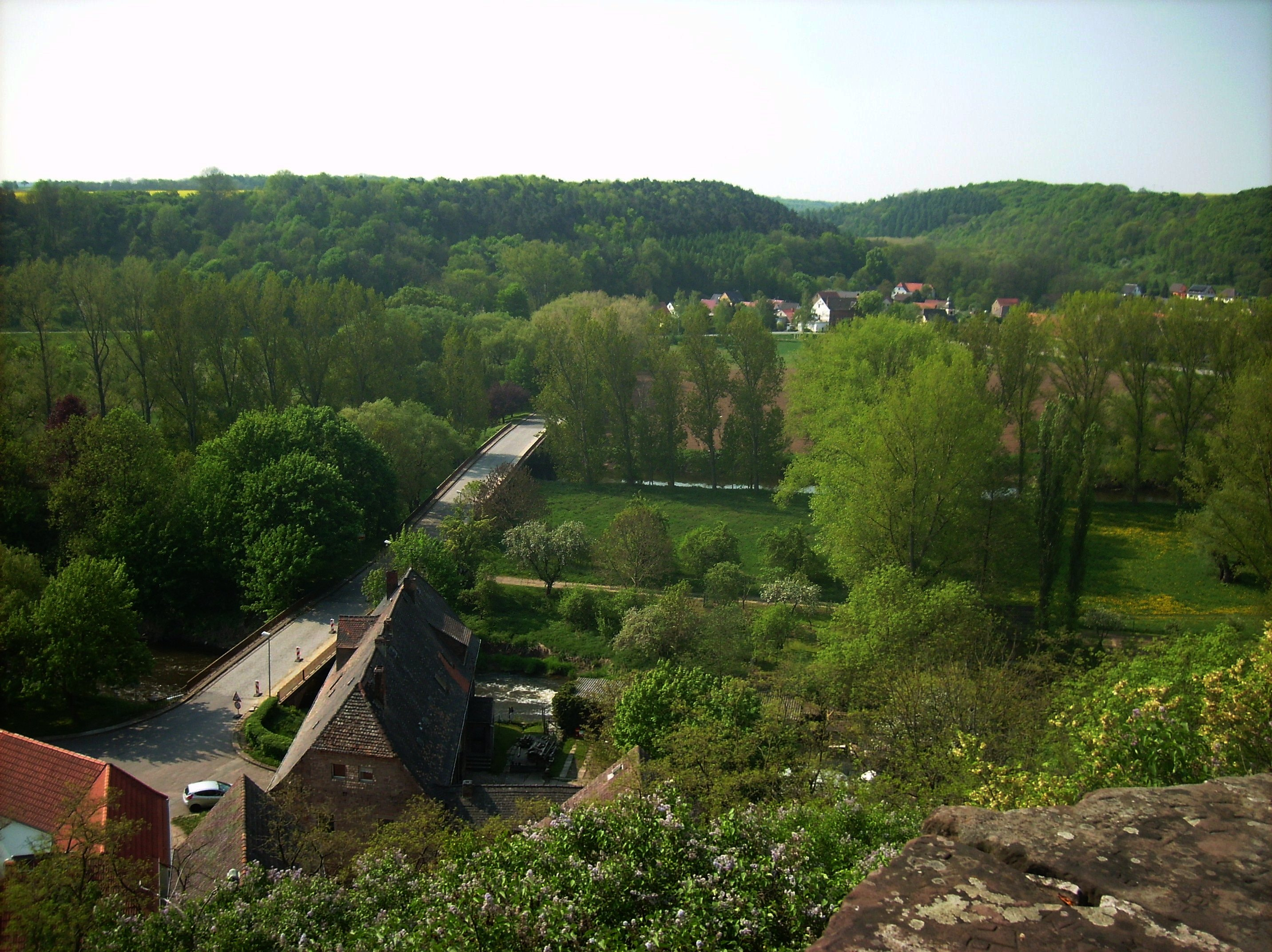 View of the Unstrut valley at Burgscheidungen (Laucha an der Unstrut, district of Burgenlandkreis, Saxony-Anhalt)